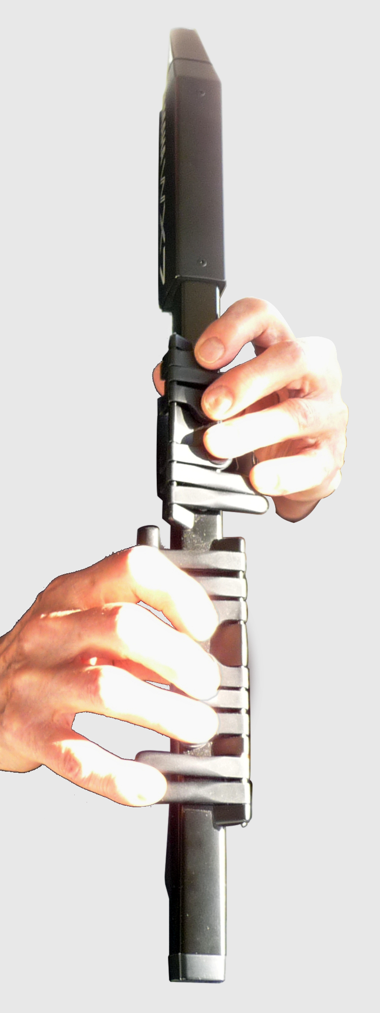 YAMAHA WX7 Wind Controller (1987)